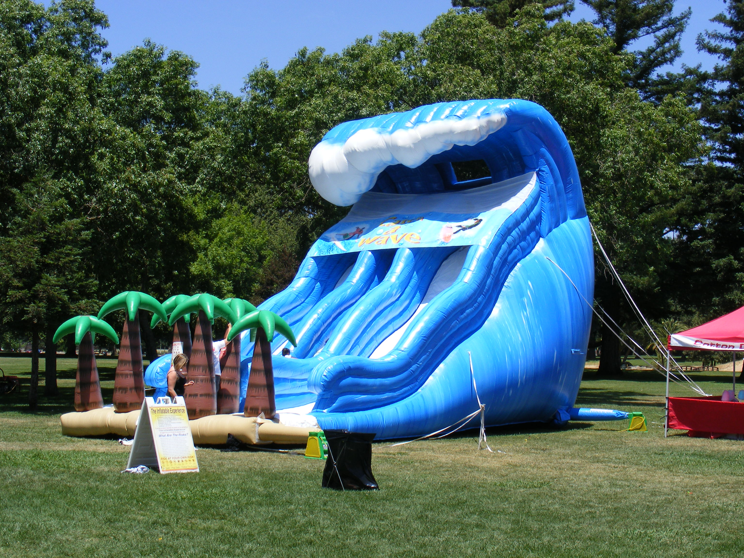 Photo taken my me (May 19, en:2007) and is an example of an inflatable structure created by Cutting Edge Creations.